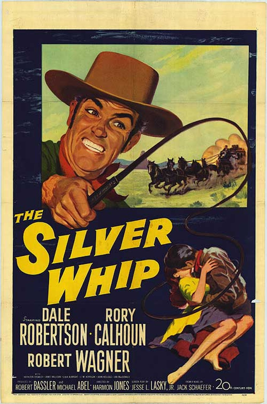 Theatrical release poster for the film The Silver Whip